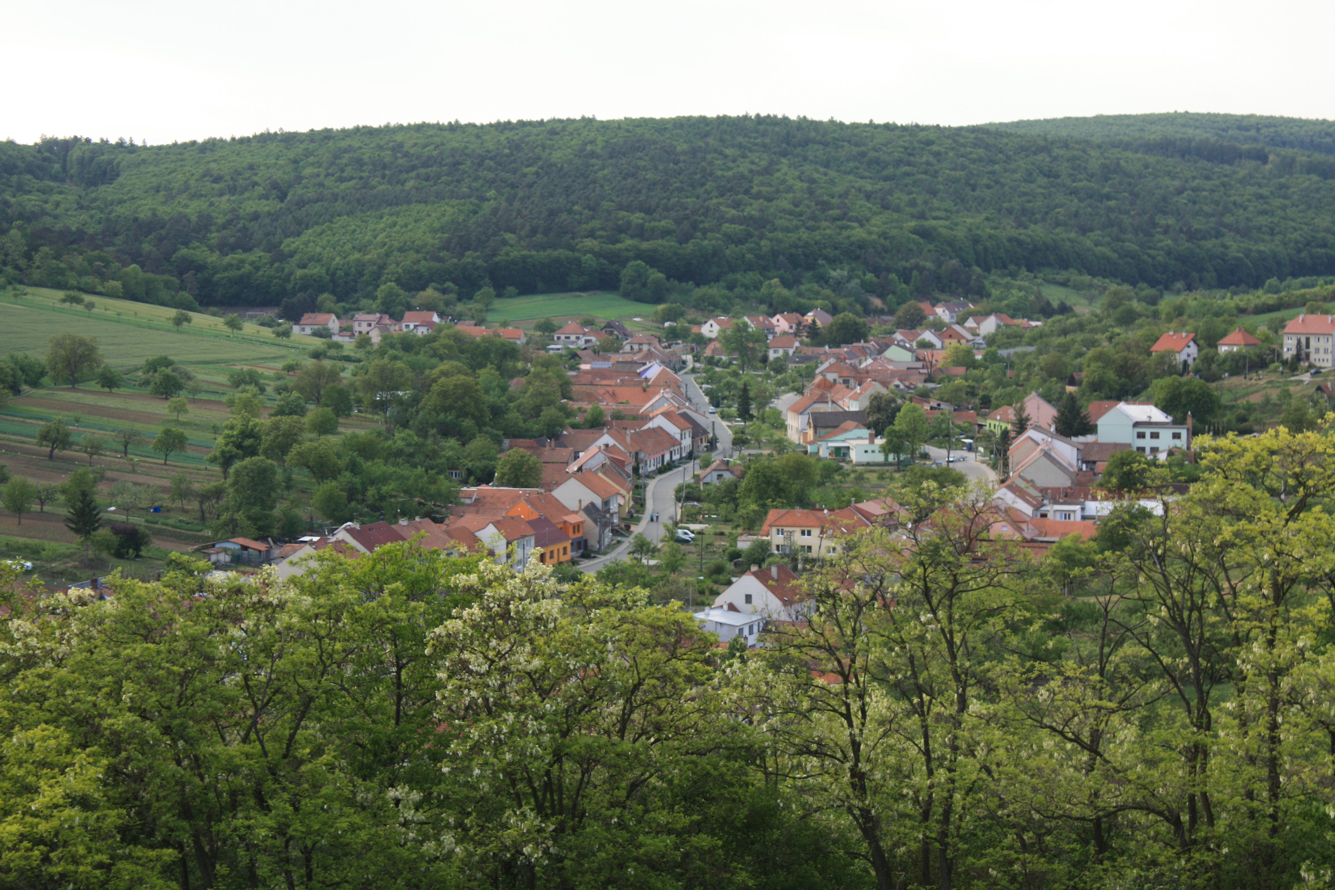 Uhřice, Hodonín District, Czech Republic